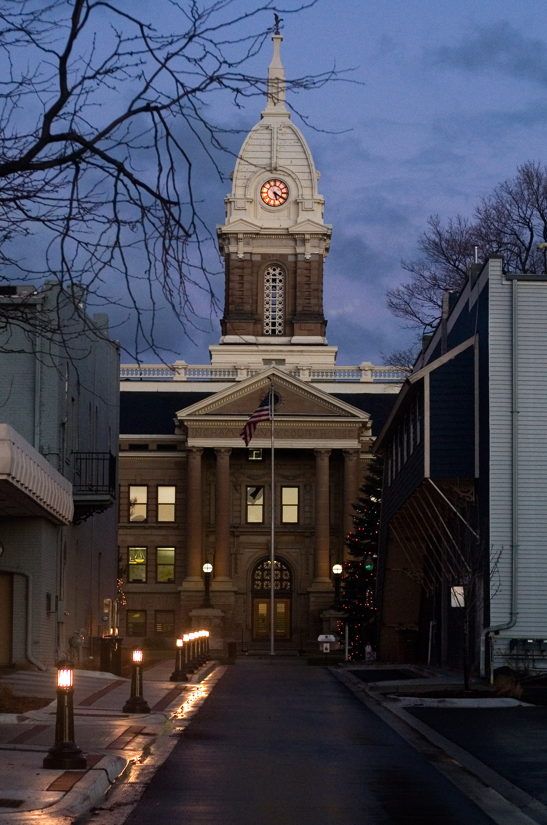 Ingham County Courthouse in Mason, Michigan, USA. December, 2006. Photograph by Tim Hollosy